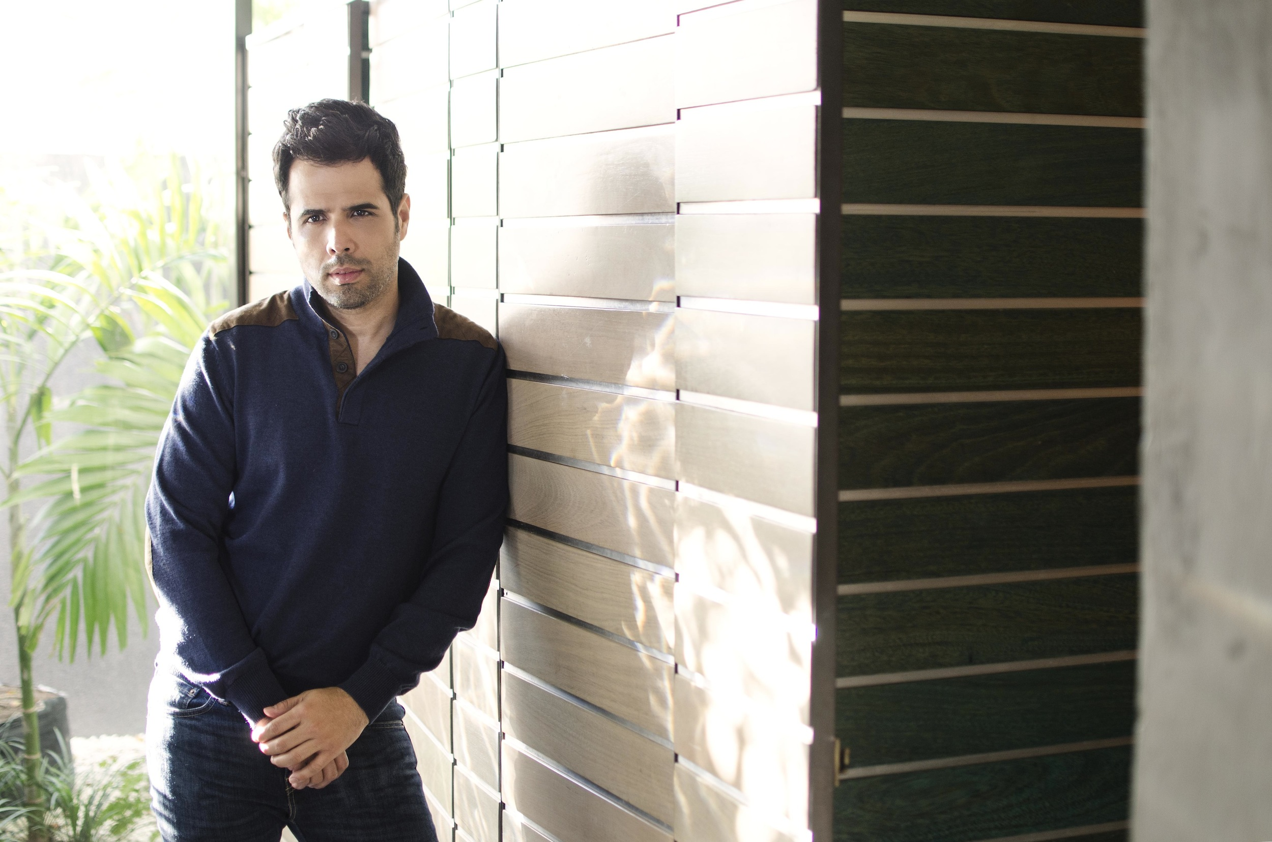 Daniel Santacruz in 2013